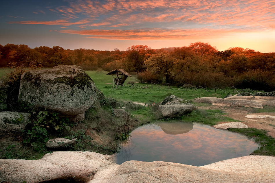 Beglik tash